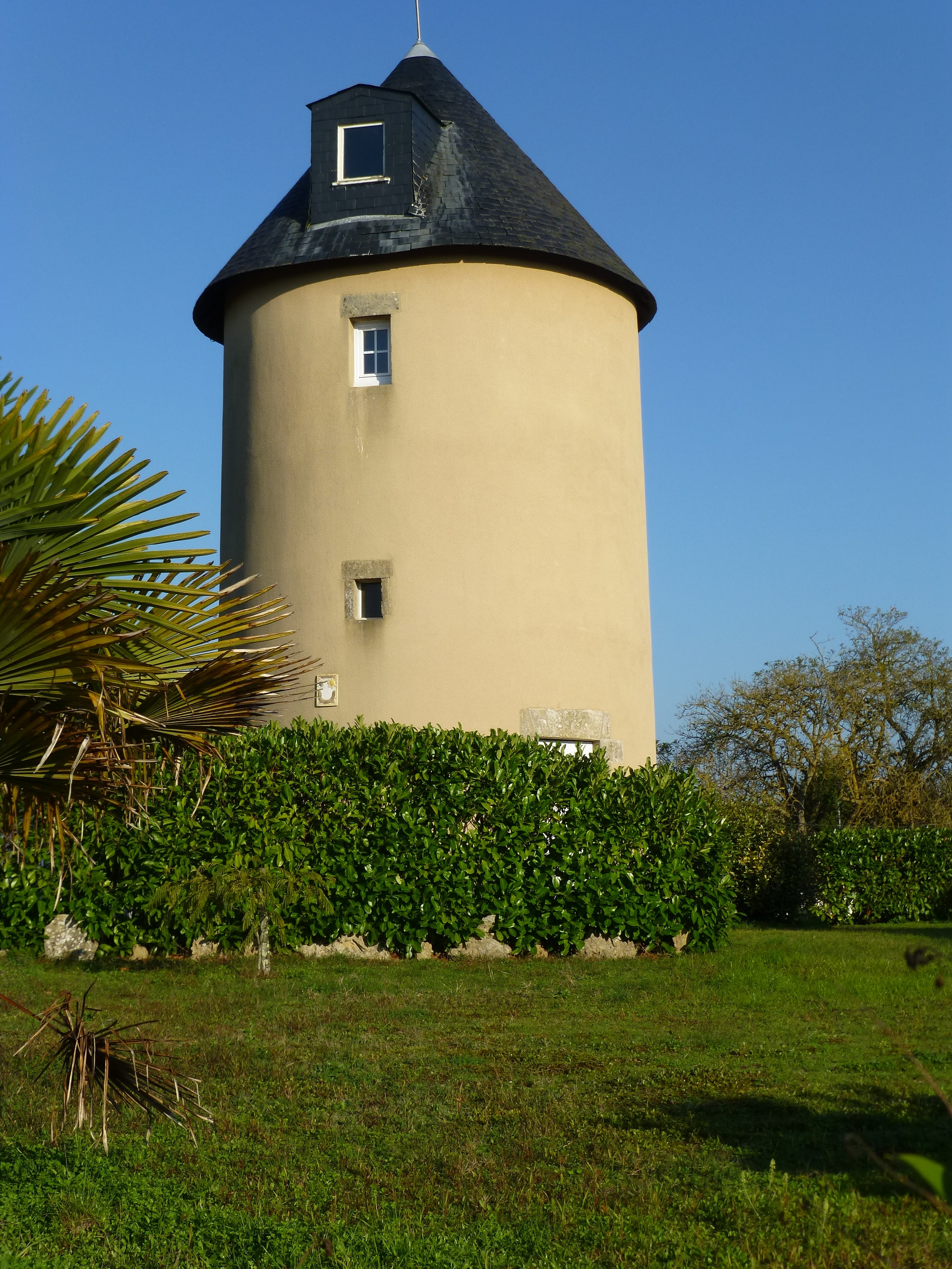 Chéméré, windmill.